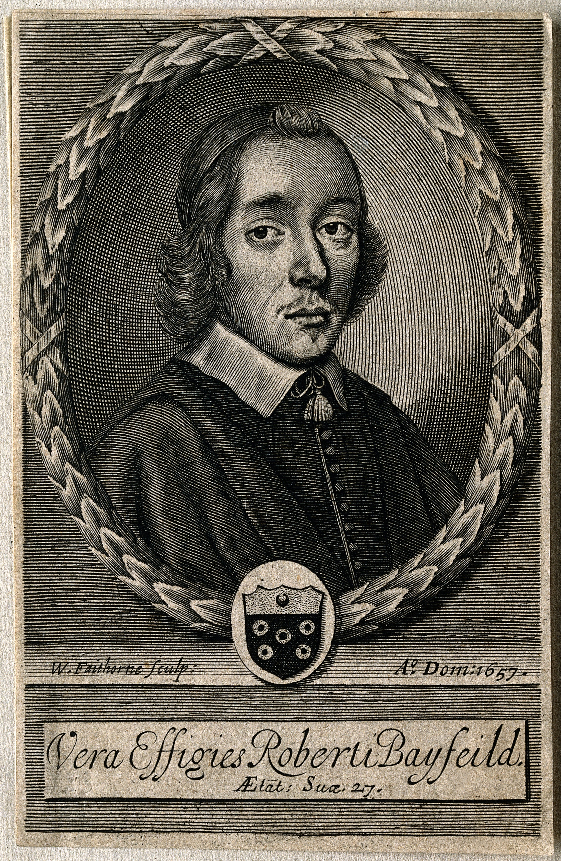 Robert Bayfield. Line engraving by W. Faithorne, 1657. Iconographic Collections Keywords: portrait prints; bayfield, robert, 1629-1690; Robert Bayfield; engravings